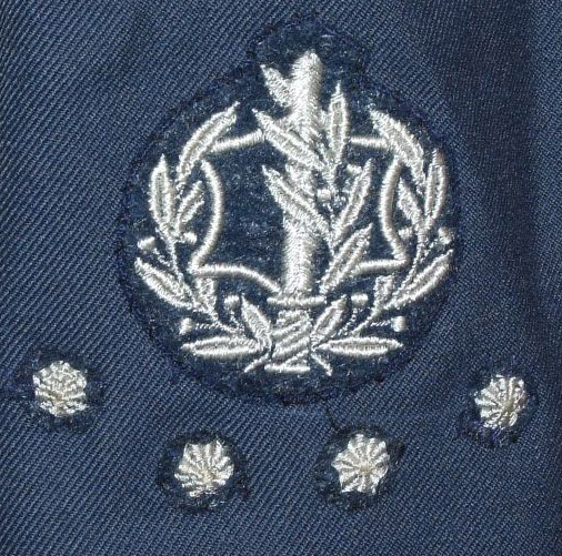 IDF Rank RASAR Avir Obsolete 3